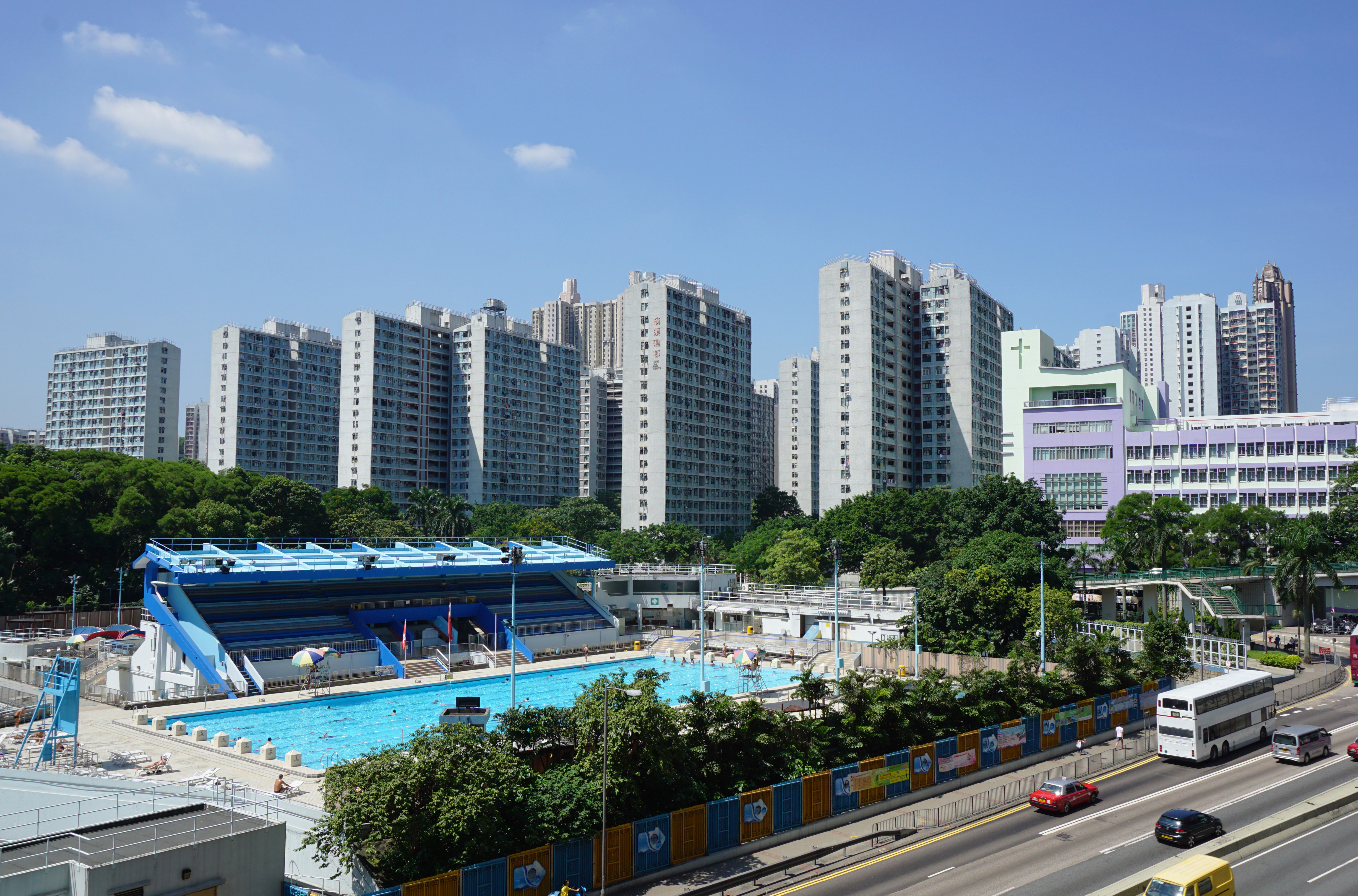 Wang Tau Hom Estate in Lok Fu, Hong Kong.